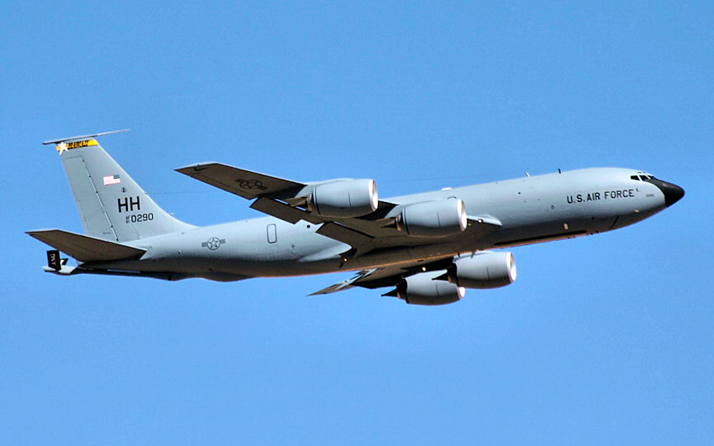 203d Air Refueling Squadron - Boeing KC-135R-BN Stratotanker 61-0290